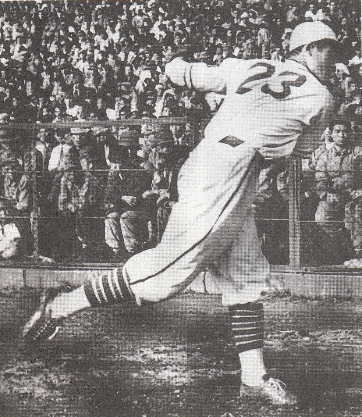 A baseball player from Japan, Hideo Fujimoto（藤本英雄）